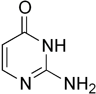 chemical structure of isocytosine